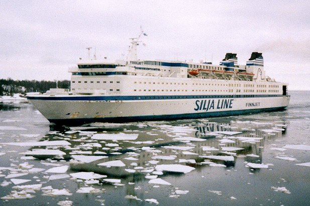 GTS Finnjet approaching Helsinki in spring 2004. Picture taken by Kalle Id.